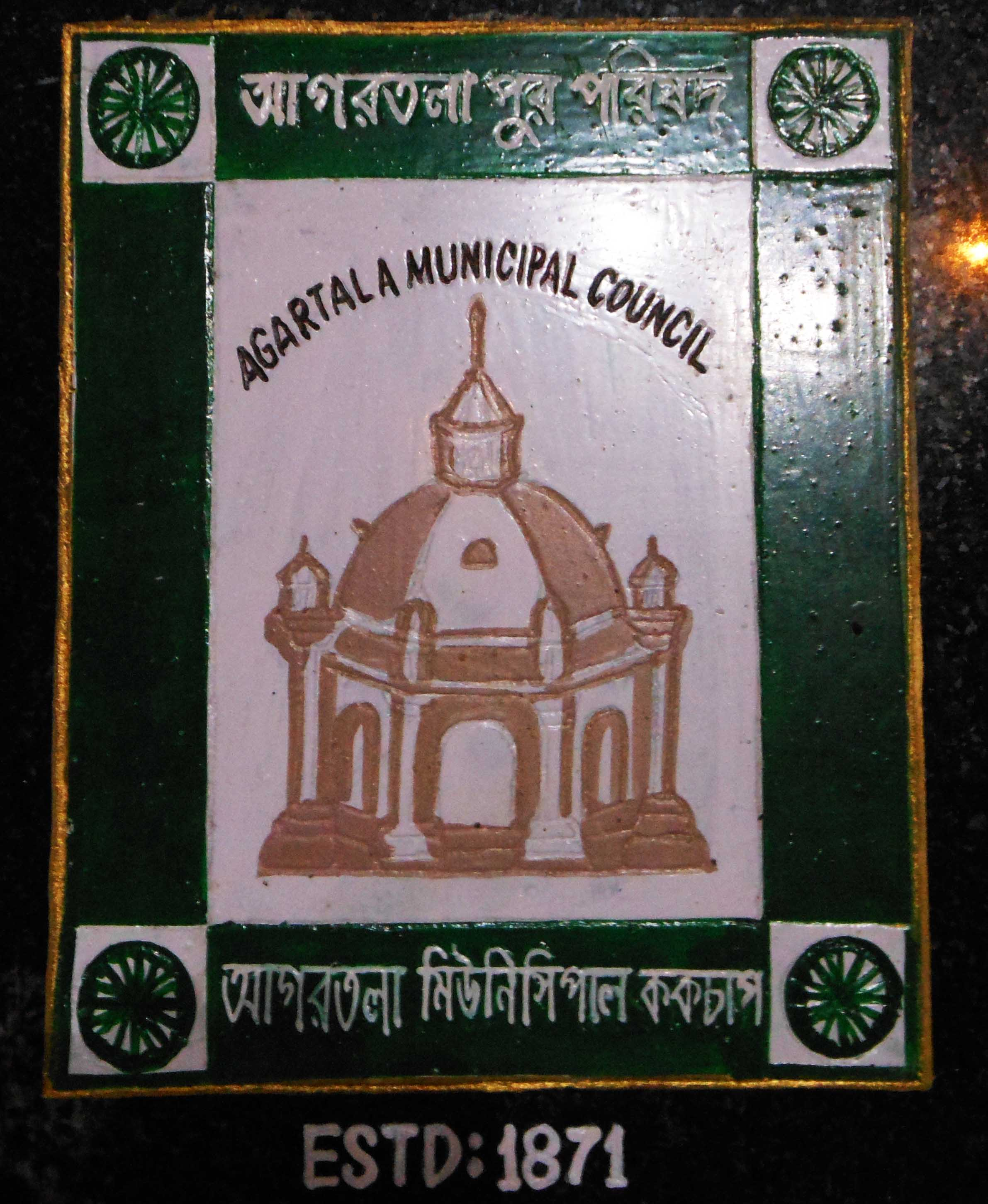 Logo of Agartala Municipal Council